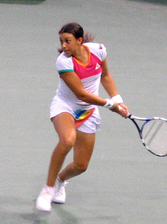 Photograph by Matthew McPherson - Marion Bartoli, 2005 JP MOrgan